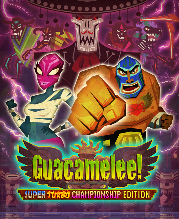 Guacamelee! box art, similar to hero and poster art